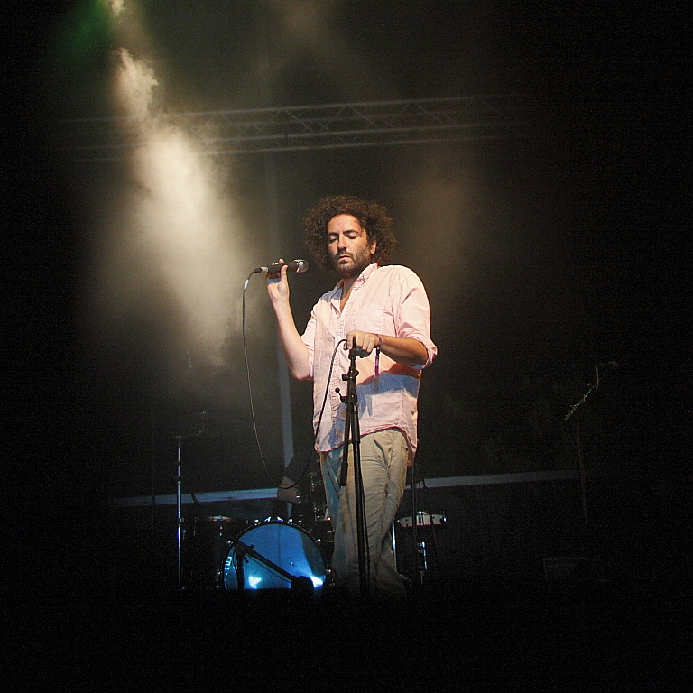 Destroyer performing at Sudoeste Festival (2011). Full size version available via the photographer.